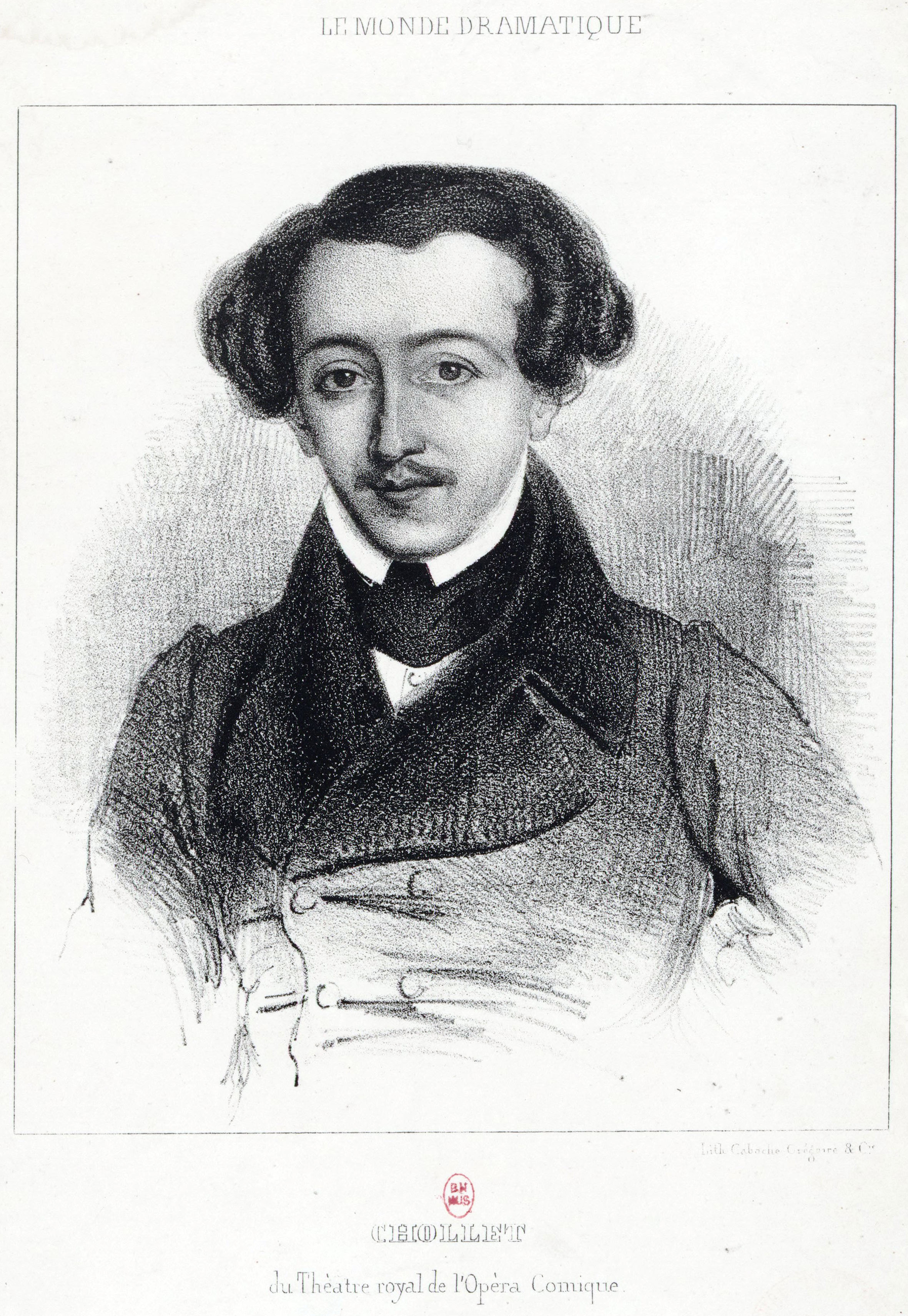 Jean-Baptiste Chollet (1798–1892), French tenor at the Opéra-Comique in 1840